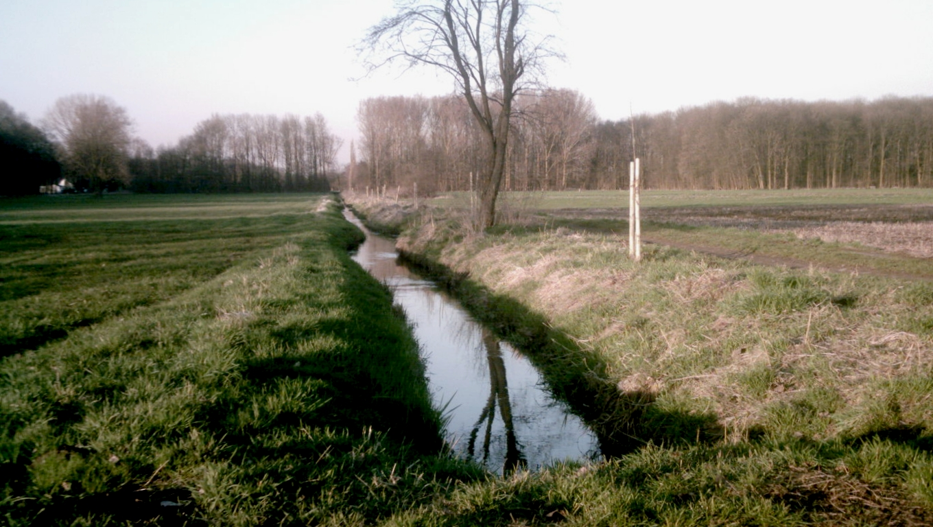 Hammer Bach Creek, Viersen, Germany.